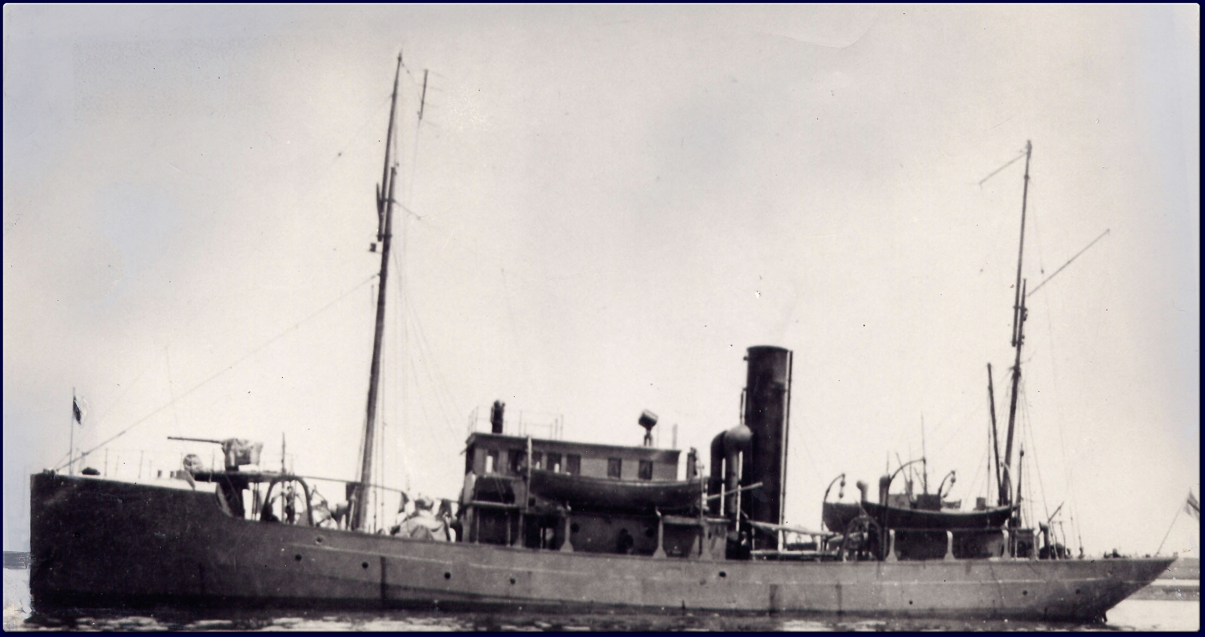 Photograph of Canadian Battle class naval trawler HMCS Thiepval.